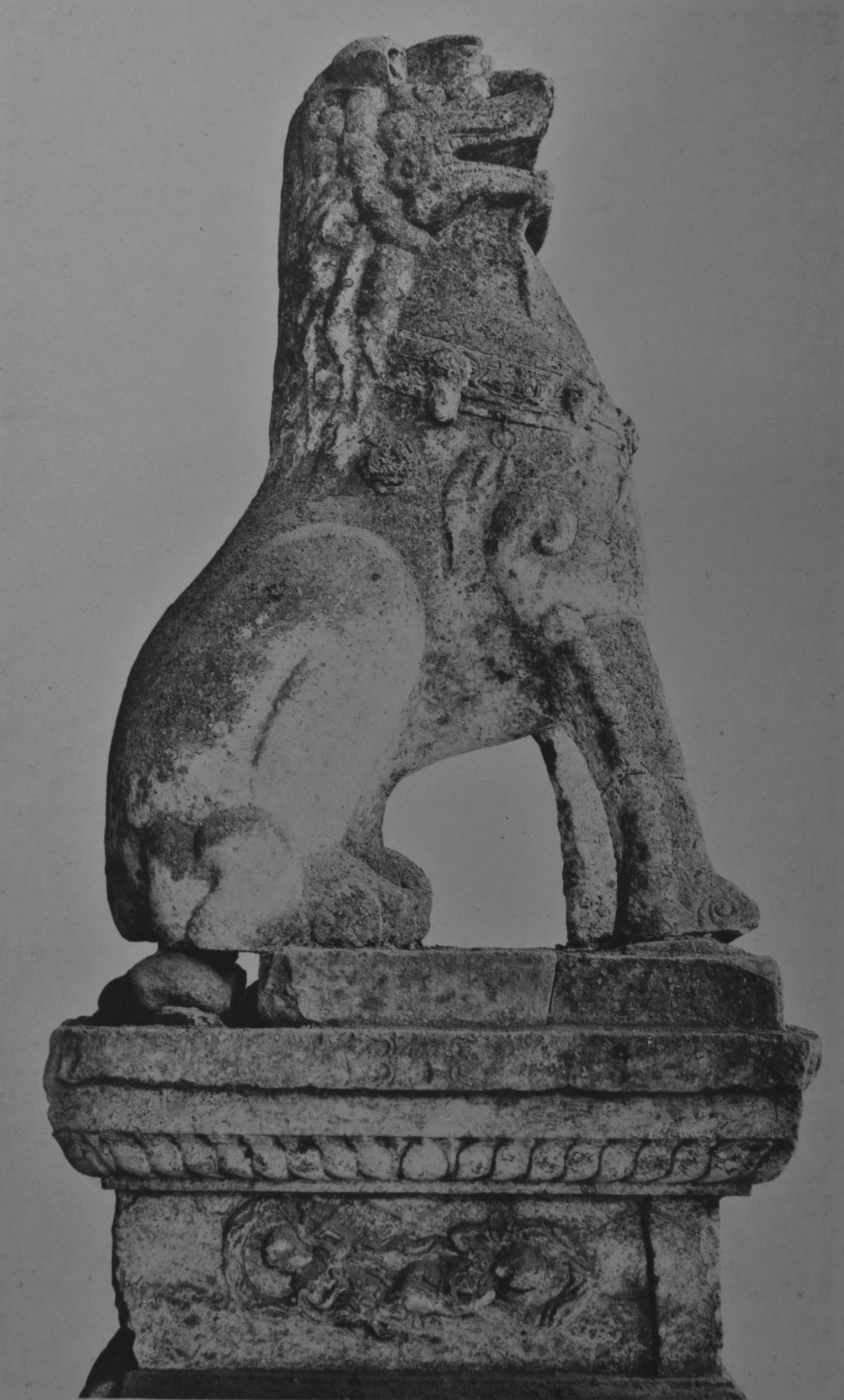 Todaiji, Nara, Japan